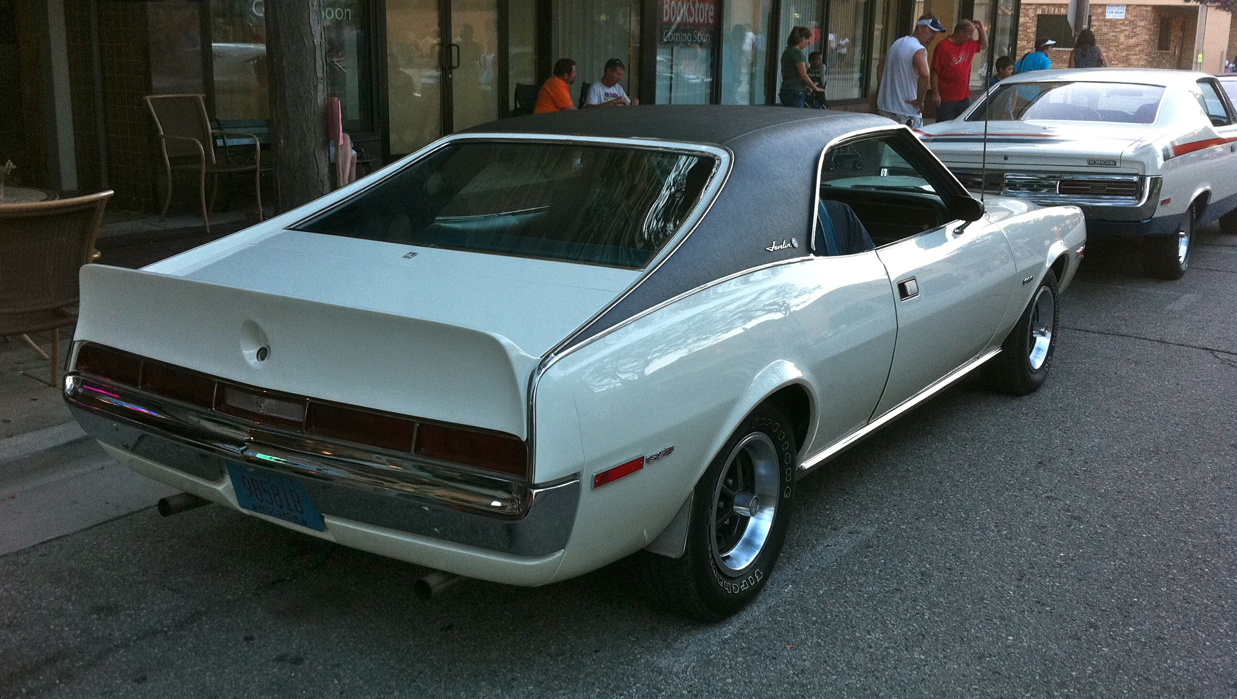 1970 Javelin SST by American Motors Corporation (AMC) - a performance "pony car". This two-door hardtop is finished in white with optional full black vinyl covered roof. This car also has the optional "Mark Donohue" rear spoiler.